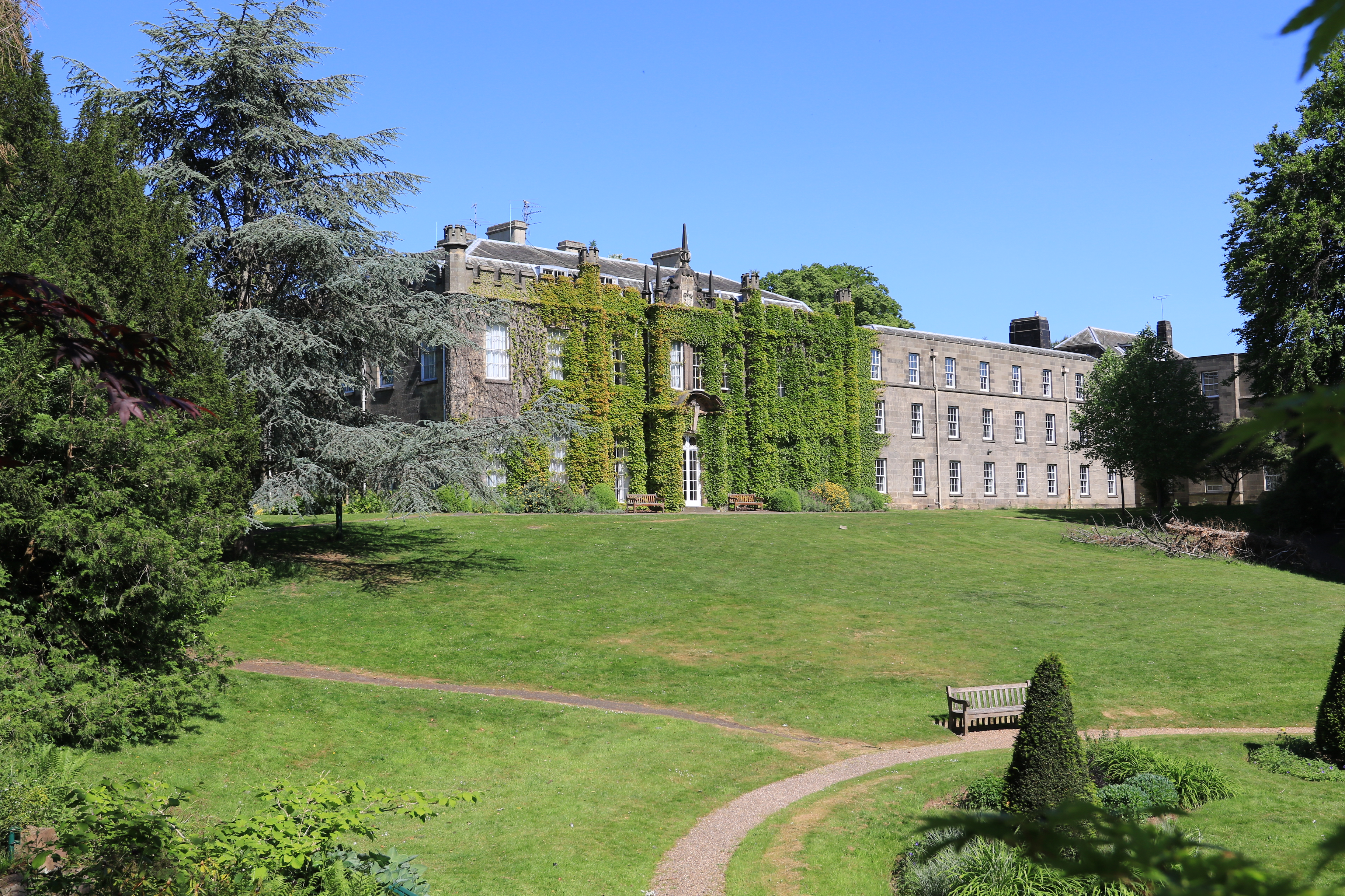 Grade II listed. Listing number 1270735. Formerly known as: Lenton Hall LENTON HALL DRIVE. Country house, now warden's house. 1804. By William Stretton of Nottingham for John Wright.